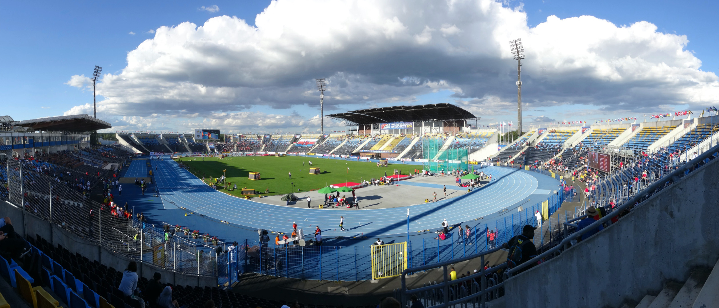 2016 World Junior Championships in Athletics in Bydgoszcz